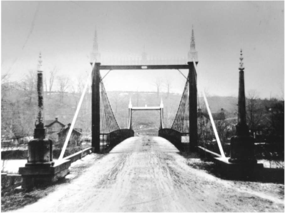 The ornate Branch Hill Bridge that spanned the Little Miami River near Loveland, Ohio, United States, from about 1860 to the 1920s, likely the "Loveland Bridge" washed out by the flood of 1913. [1] The "Blue Bridge" replaced it in 1922.